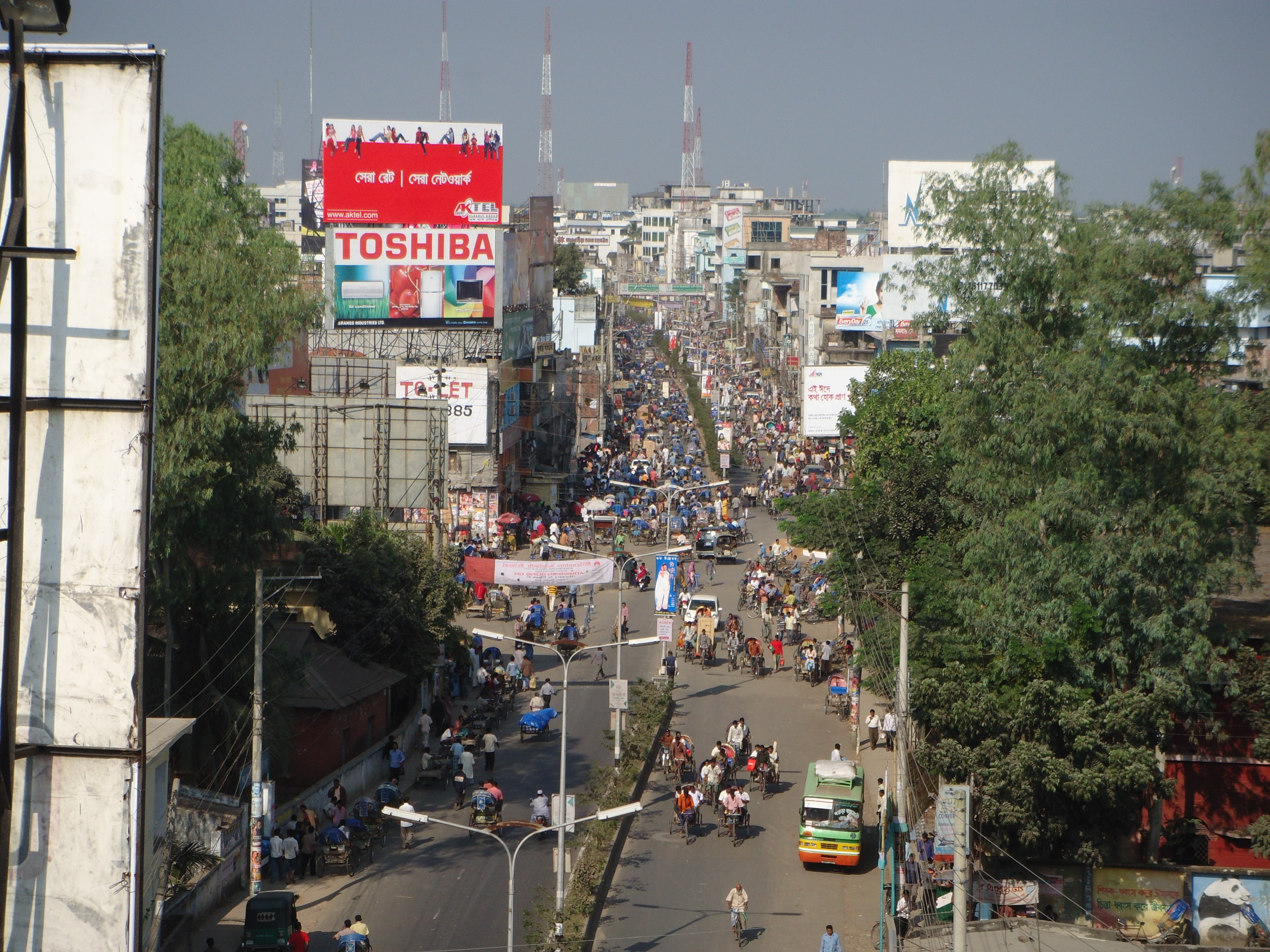 Bogra Sathmaatha from Touhid Plaza, Sherpur road, Bogra